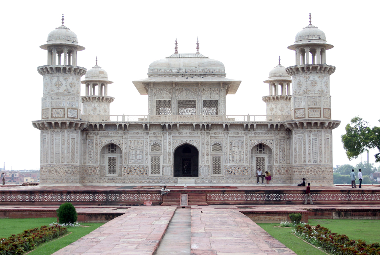 Itmad-Ud-Daulah's Tomb (Baby Taj).